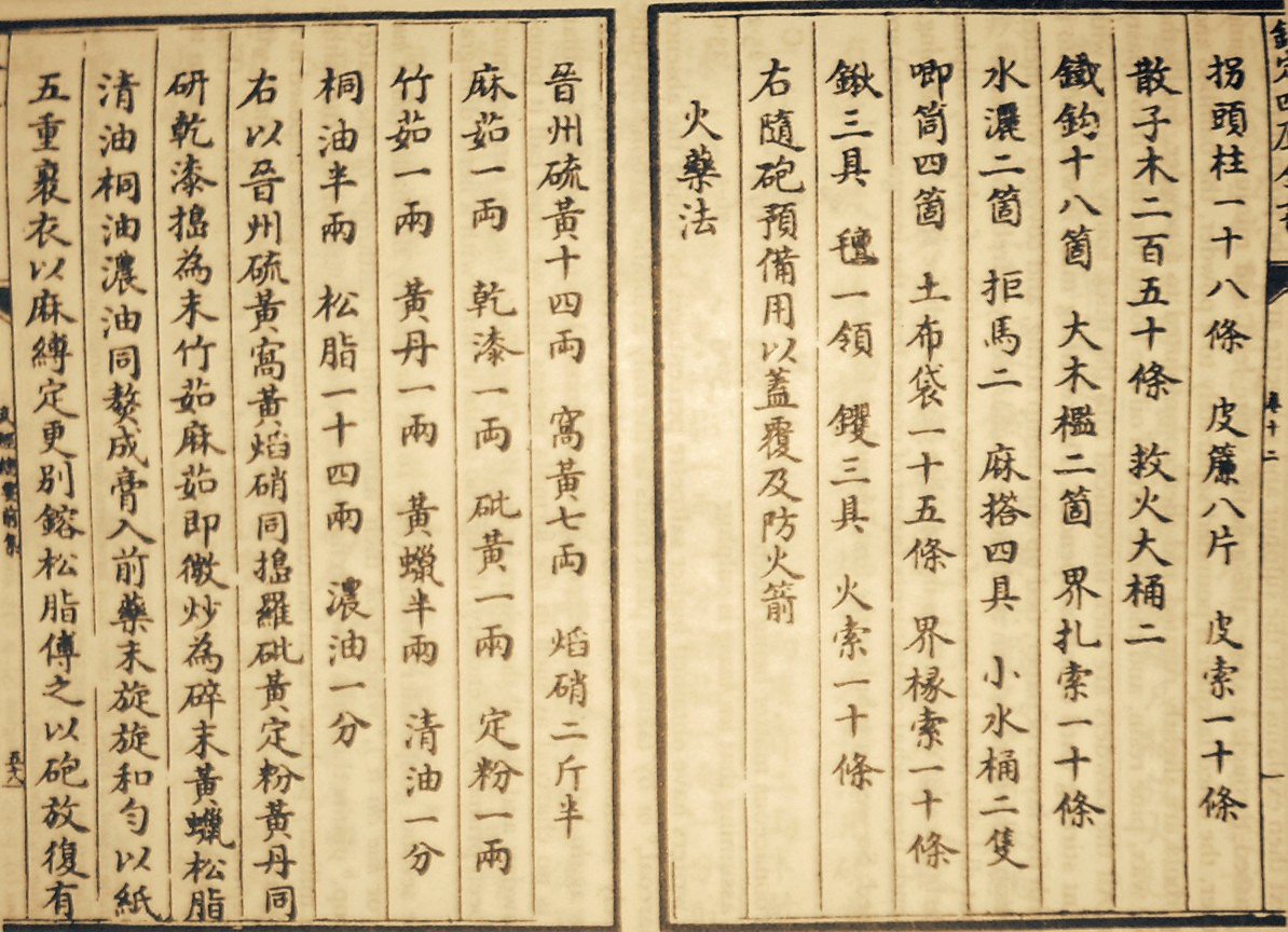 The earliest known written description of the formula for gunpowder, from the Chinese Wujing Zongyao military manuscript that was compiled by 1044 during the Song Dynasty of China. It was written and compiled by the 11th century Song scholars Zeng Gongliang (曾公亮), Ding Du (丁度), and Yang Weide (楊惟德). The entry for this specific page is headed with the title "method for making the fire-chemical" ("huo yao fa"). This picture can also be found on page 119 of Joseph Needham's book Science and Civilization in China: Volume 5, Part 7.